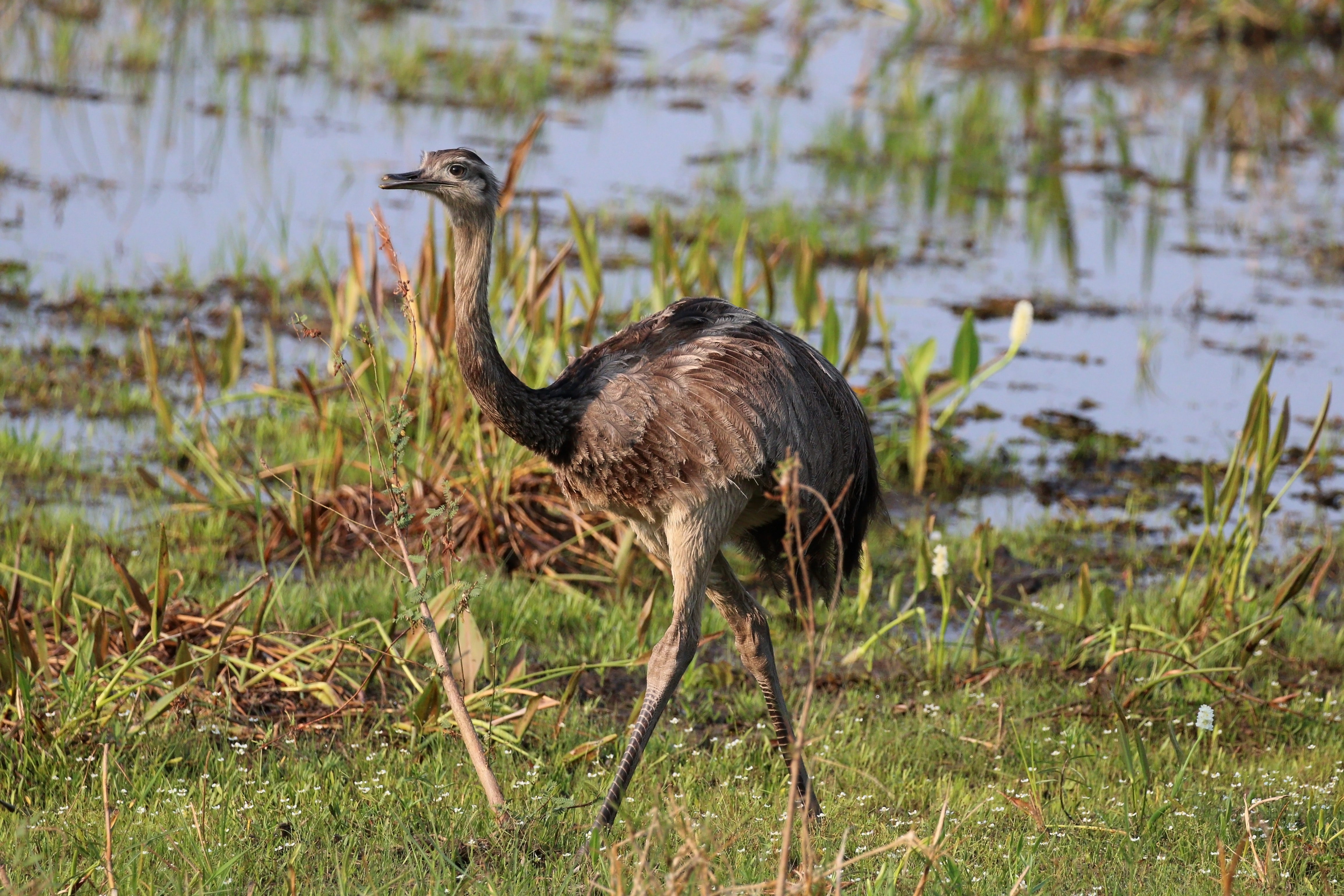 Greater rhea (Rhea americana), the Pantanal, Brazil